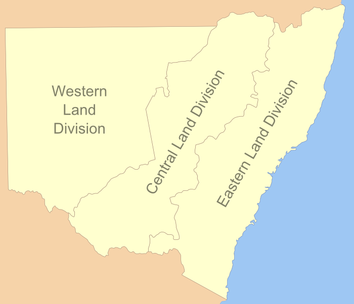 The three land divisions used in New South Wales